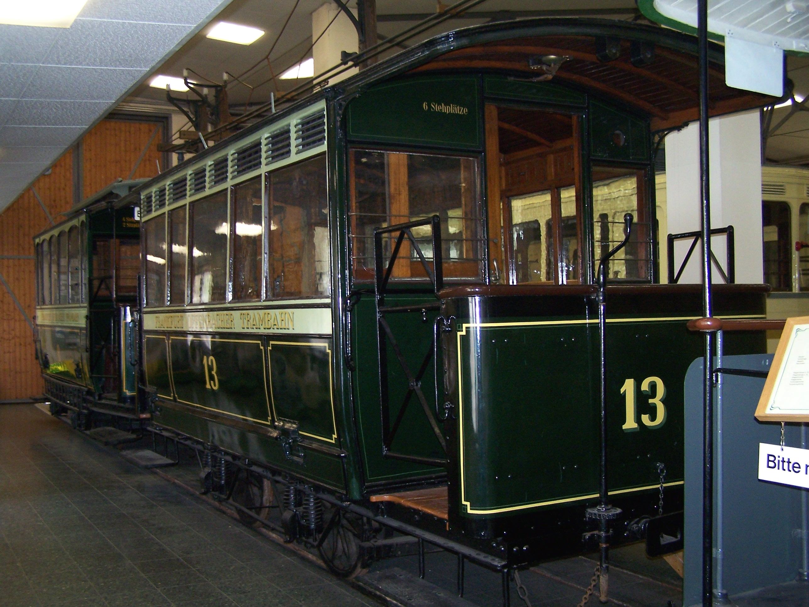 tram trailer 13 of the FOTG in the Frankfurt on Main Transport Museum in Frankfurt am Main--Schwanheim